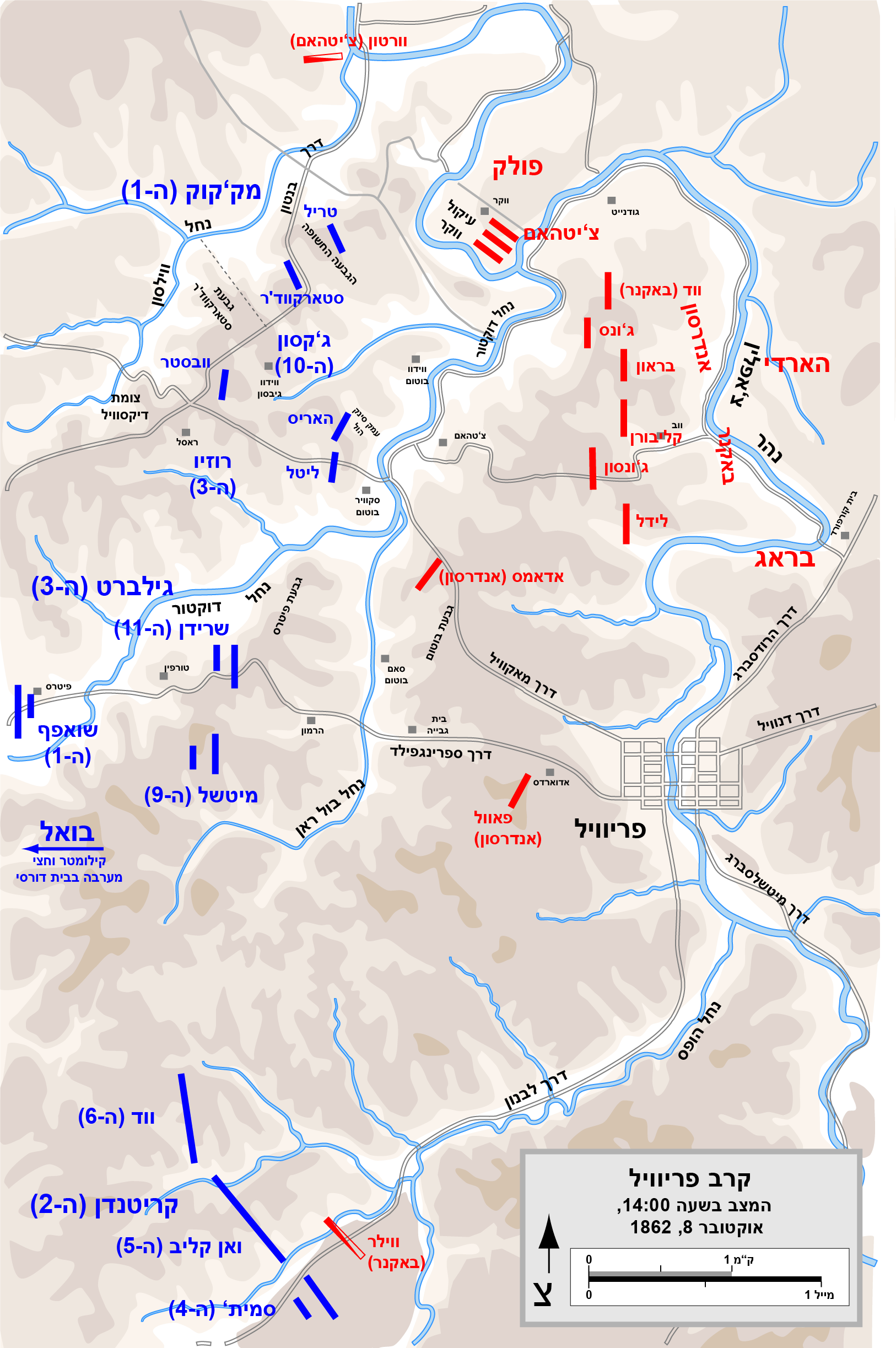 Map of the Battle of Perryville of the American Civil War. Drawn by Hal Jespersen in Adobe Illustrator CS5. Graphic source file is available at